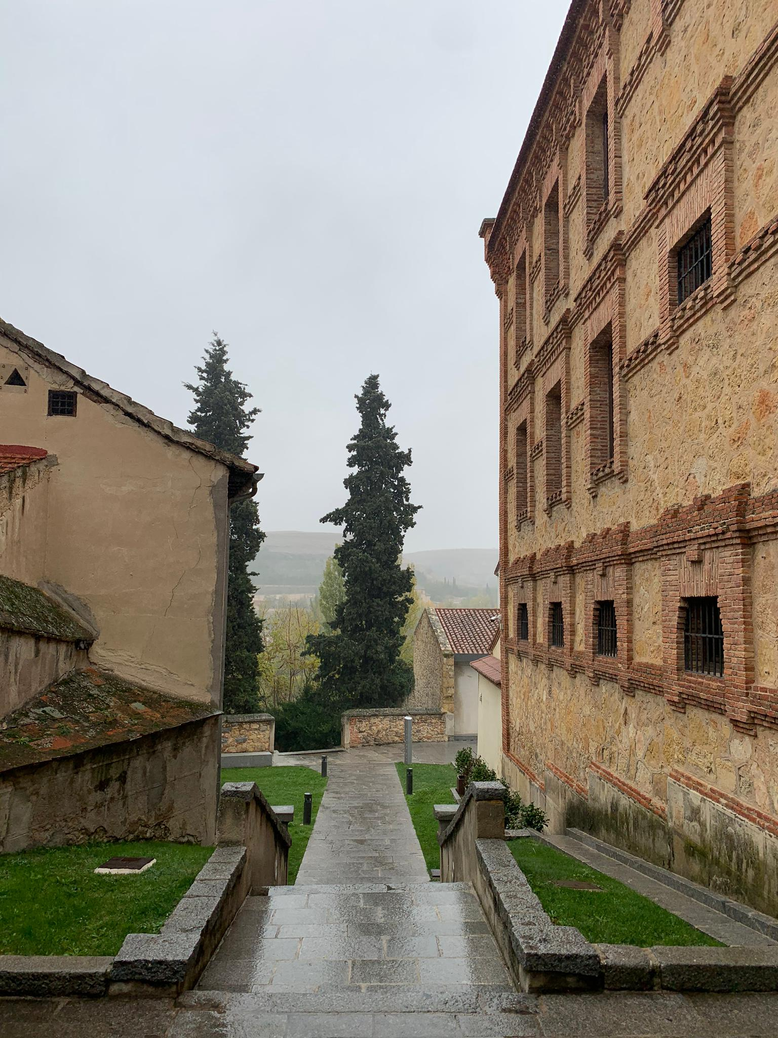 Middle Entrance of IEU